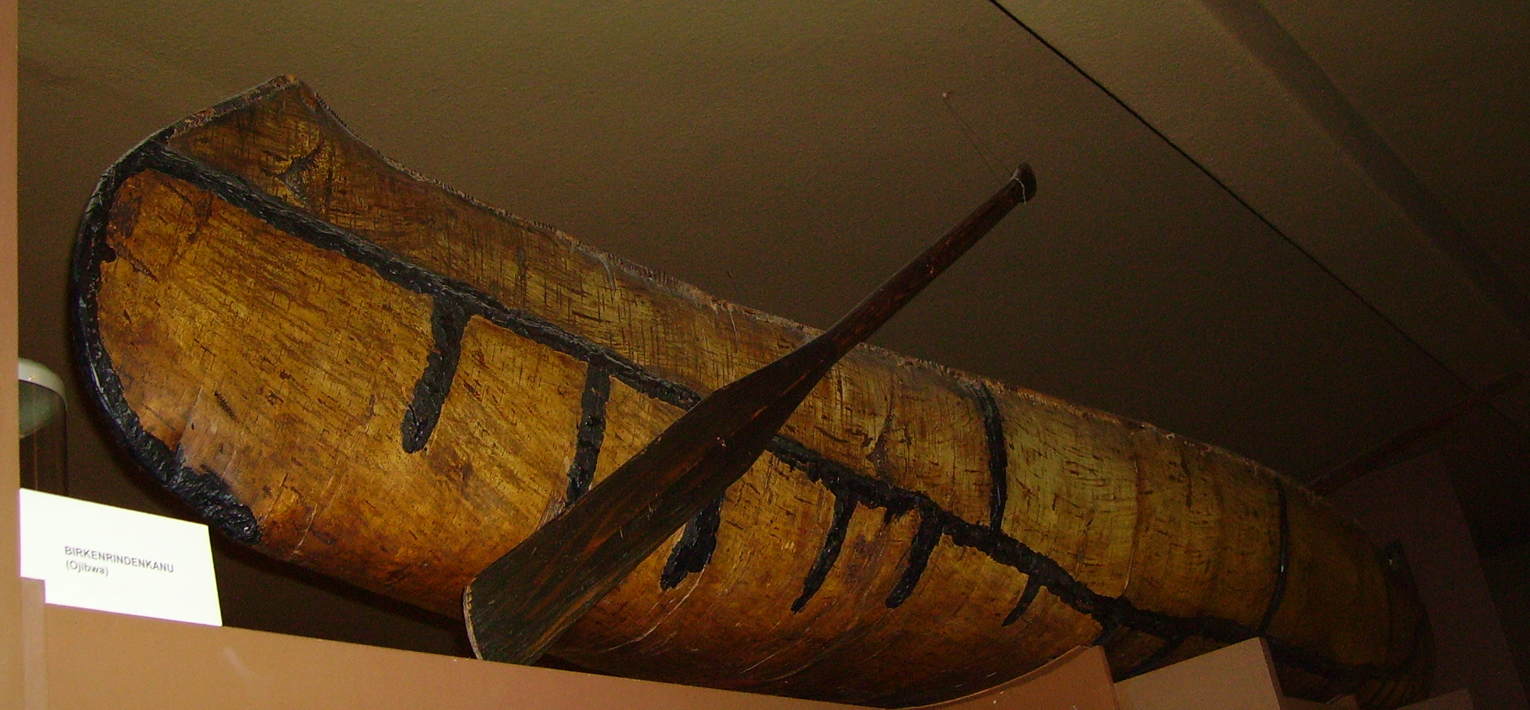 Birch bark